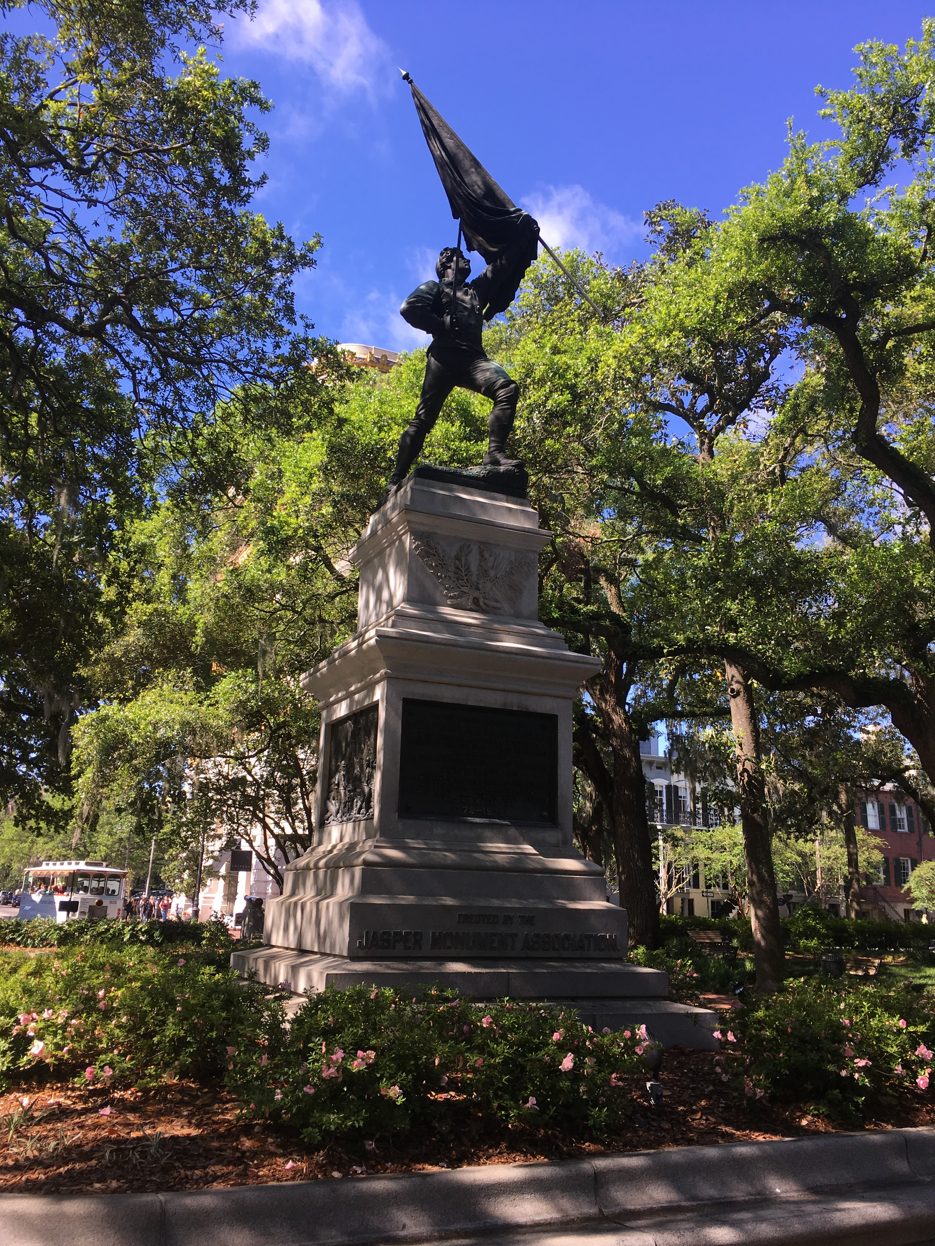 The William Jasper statue in Madison Square in Savannah, GA.